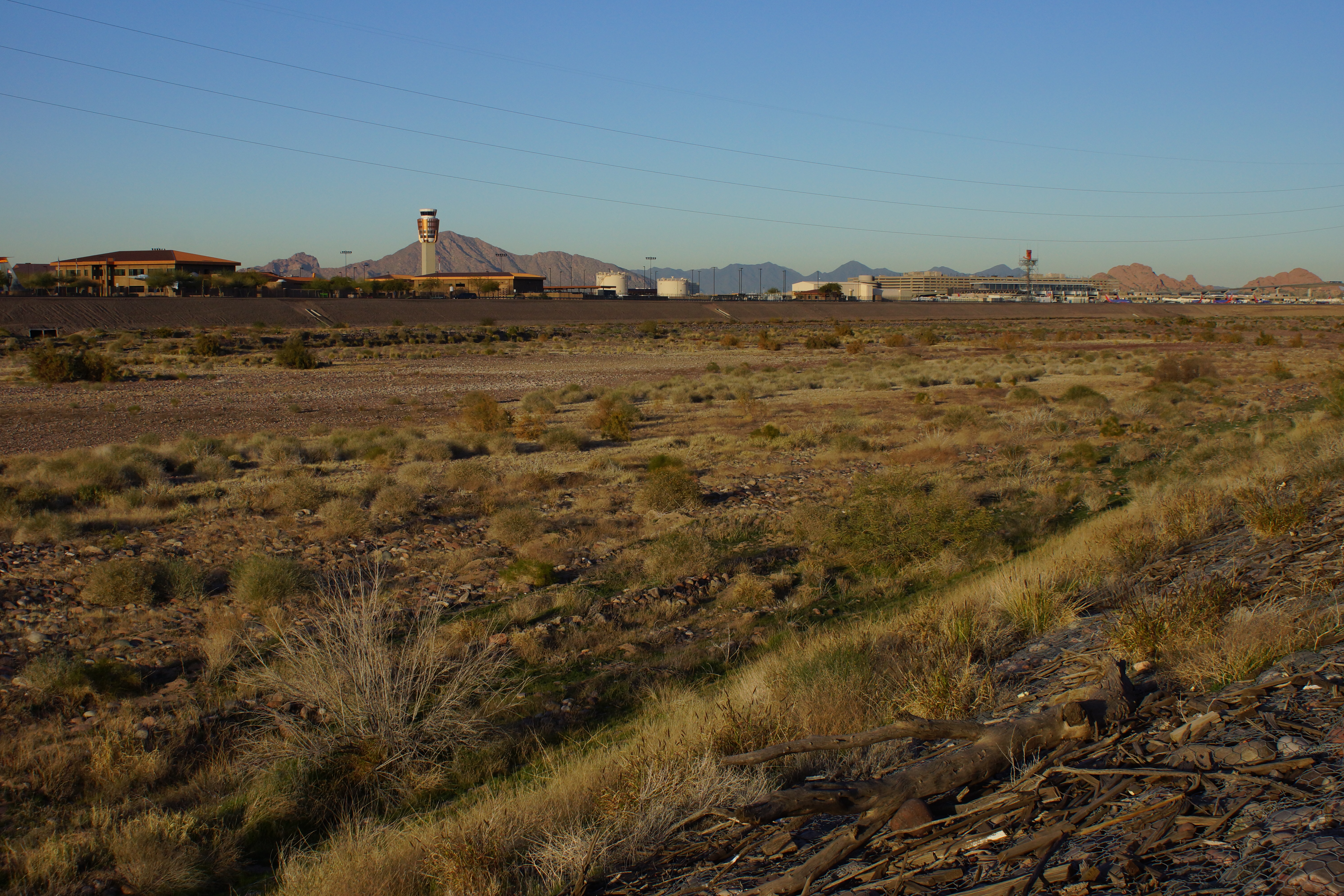 2014, View East, Salt River, Sky Harbor, Camelback Mountain, McDowell Mountains, Papago Buttes